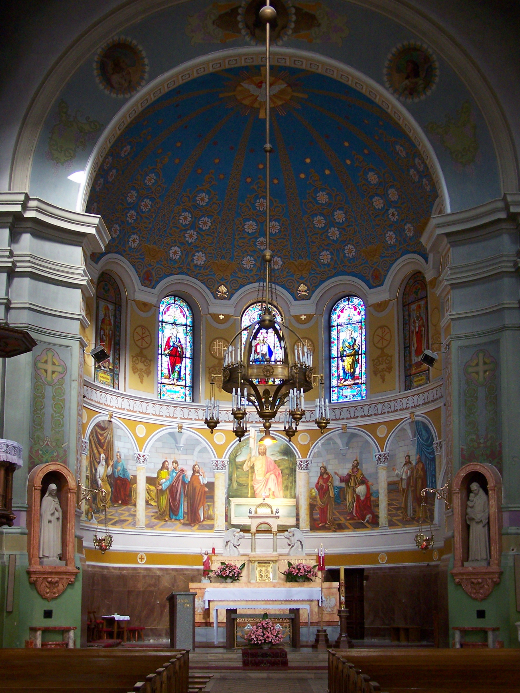 Church in Łódź (Poland).